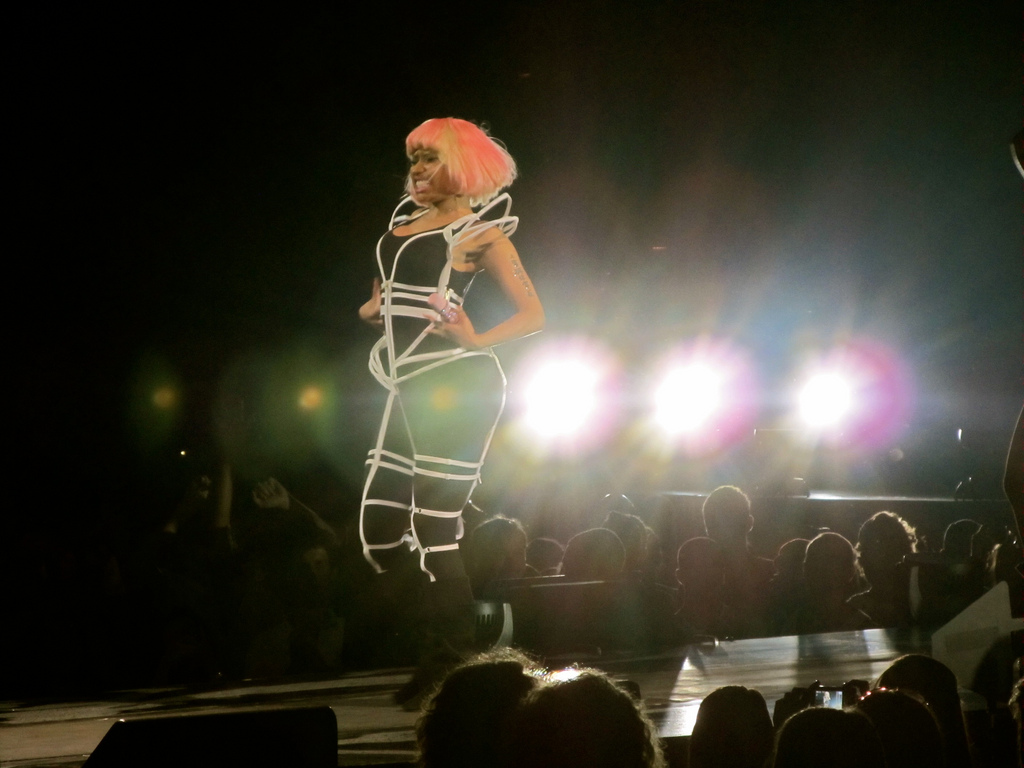 Nicki Minaj live on Femme Fatale Tour in 2011.